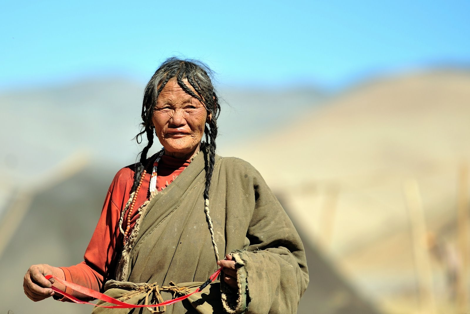 Saga County, Tibet. North of Saga town.